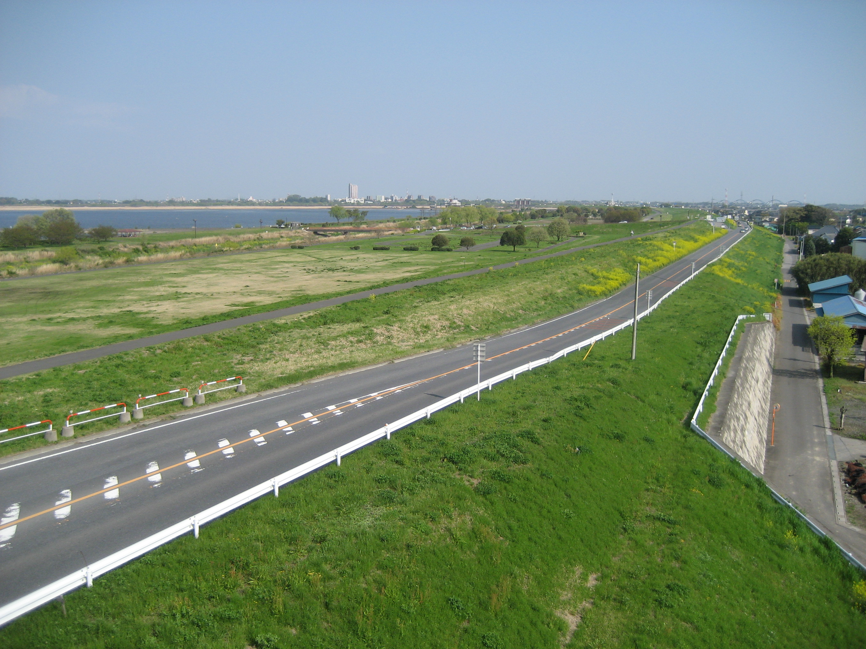 The Tochigi Prefectural Road, Gunma Prefectural Road, Saitama Prefectural Road and Ibaraki Prefectural Road Route 9 and Watarase Reservoir near Michinoeki Kitakawabe in Kazo City, Saitama Prefecture, Japan